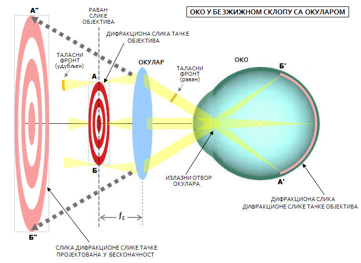 СЛИКА ОКА У БЕЗЖИЖНИ СКЛОПУ